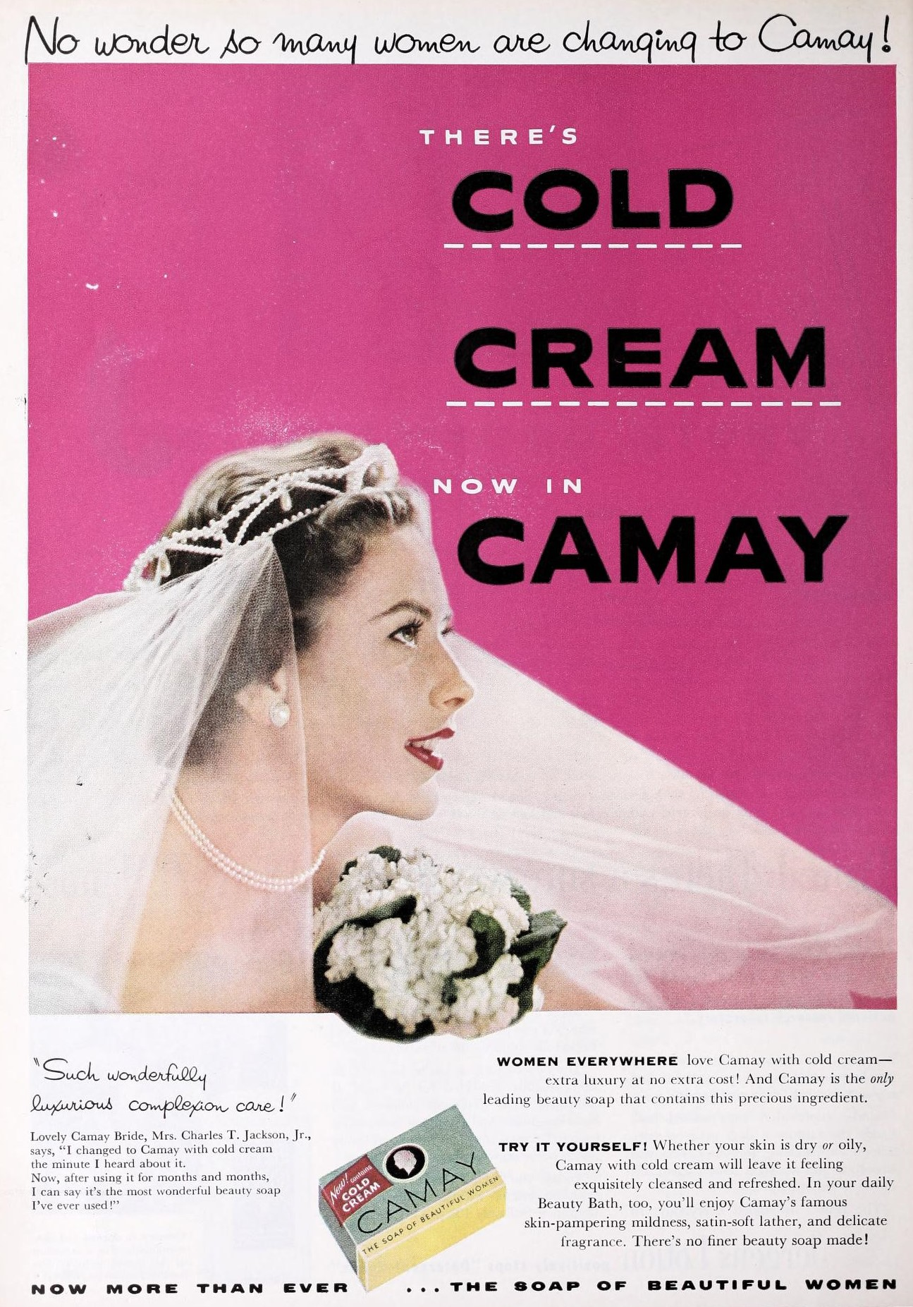 No wonder so many women are changing to Camay!, 1955